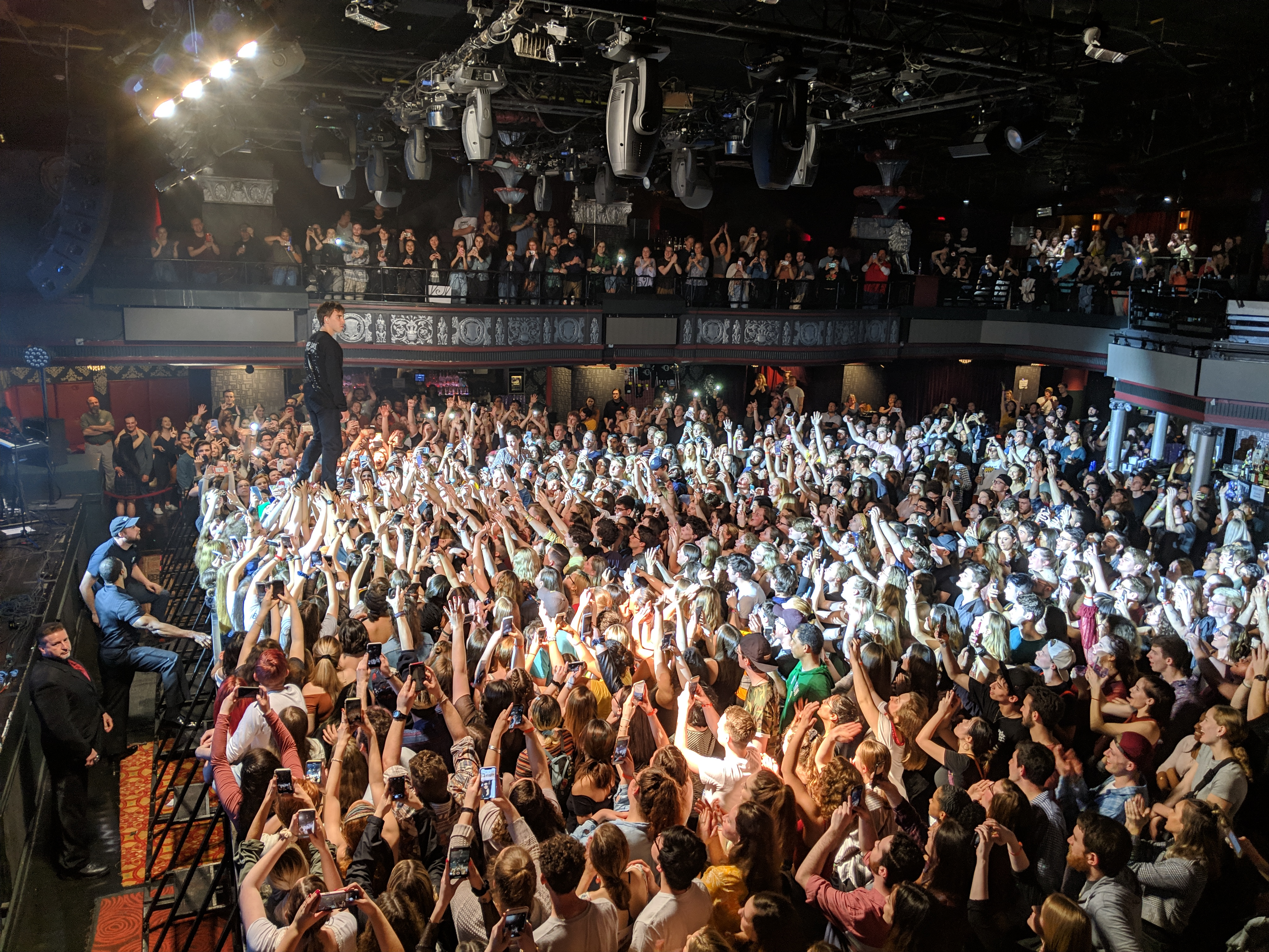 Christo Bowman, as he often does, crowd surfing at the House of Blues